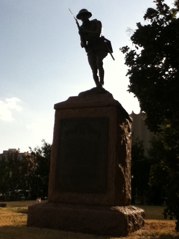 Doughboy statue in downtown Enid.